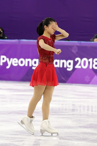 SAKAMOTO Kaori JPN – 6th Place